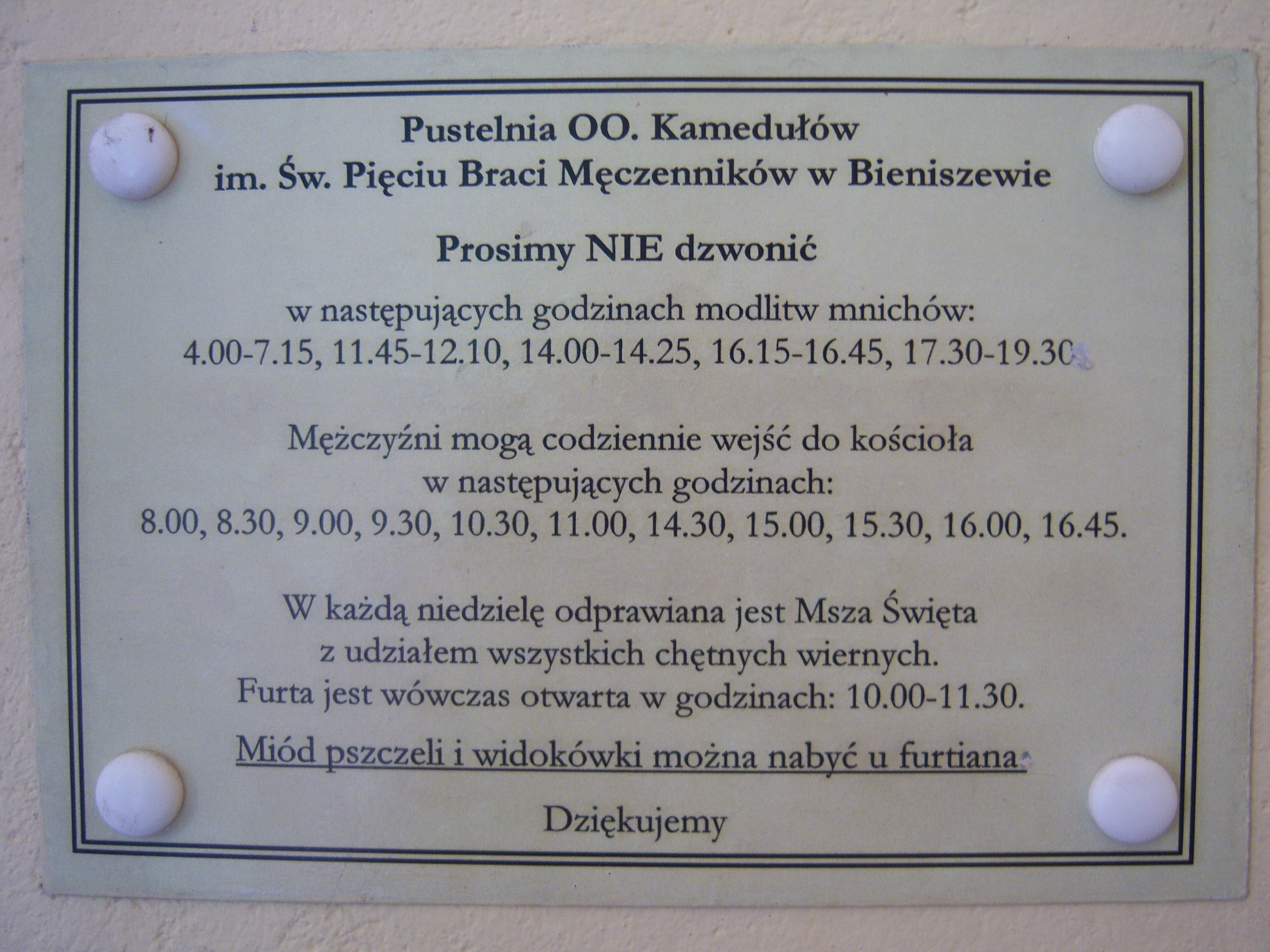 Information at Camaldoese monastery gate in Bieniszew